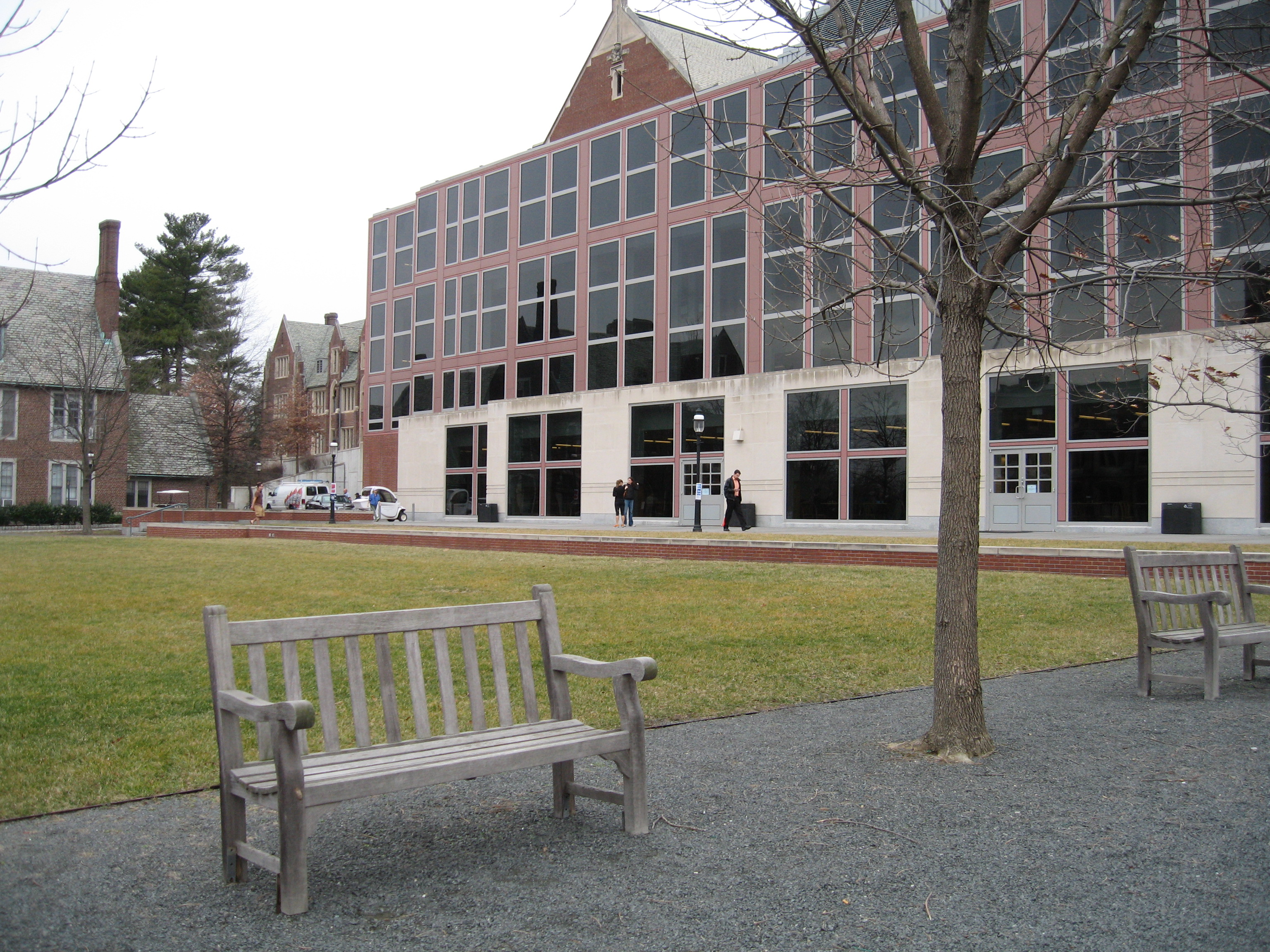 The back entrance of the Frist Campus Center at Princeton University.